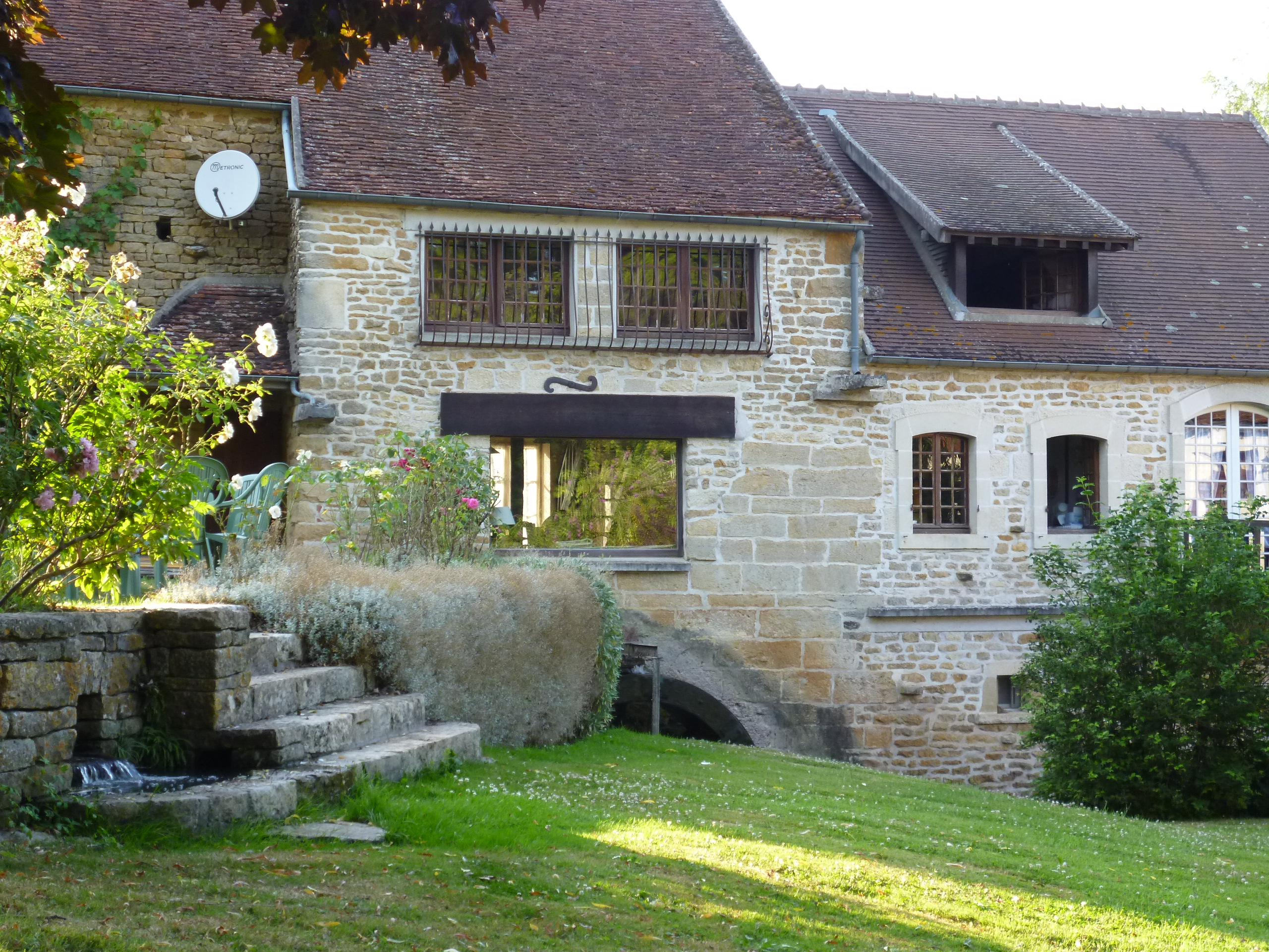 Watermill Chivres Courcelles Nièvre France